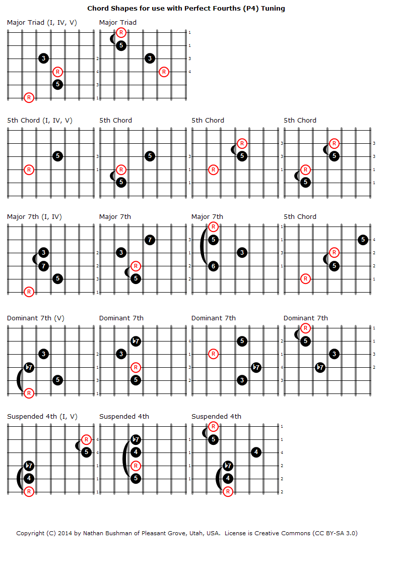 Handy chord shapes for use with Perfect Fourths Tuning (aka "All Fourths Tuning" and "P4 Tuning"). These chord shapes can be transposed both vertically and horizontally anywhere on the guitar neck.